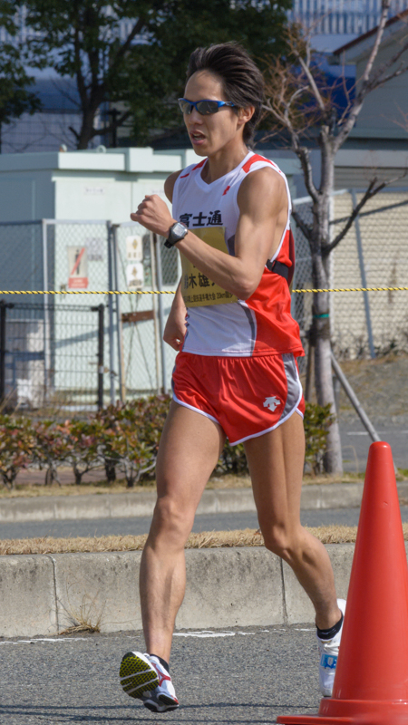 Yusuke Suzuki, the Men's 20km race walk world record holder. Taken at the 2014 Japanese Championships in Athletics in Kobe.